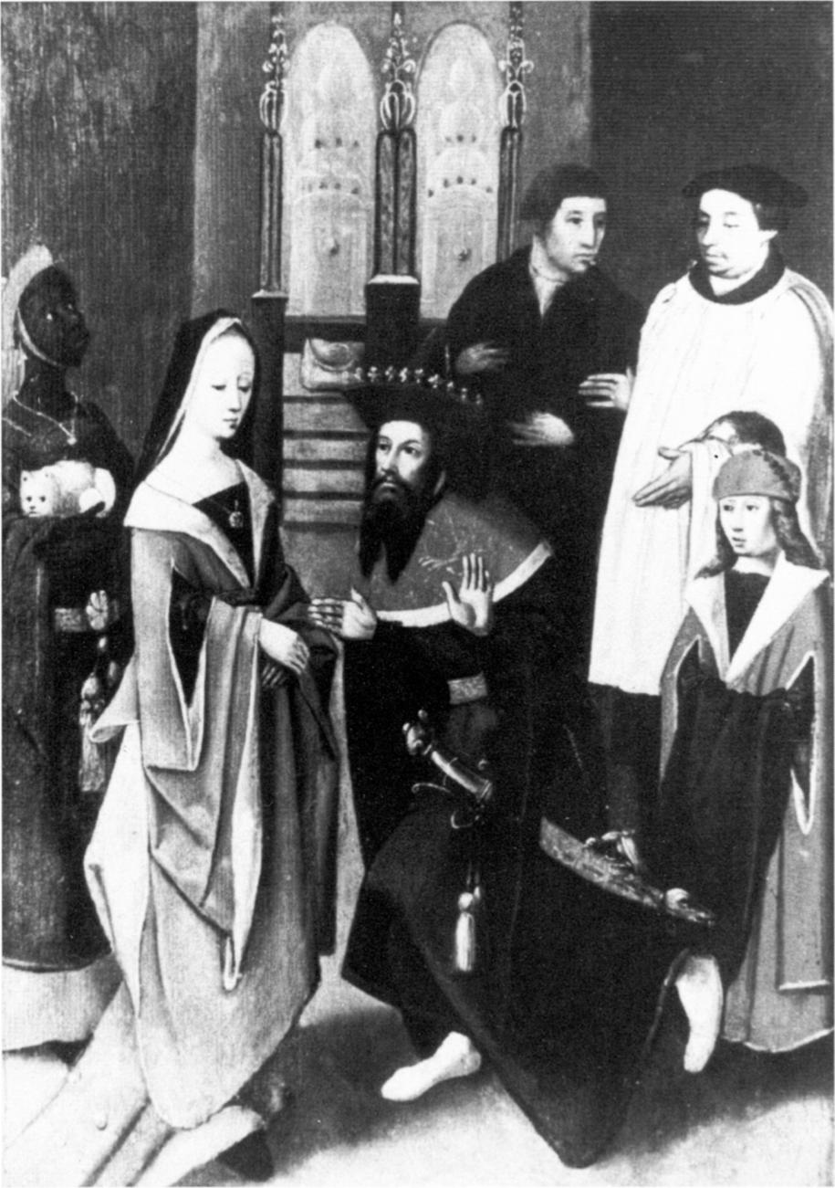 Pendant of File:After Jheronimus Bosch 021.jpg